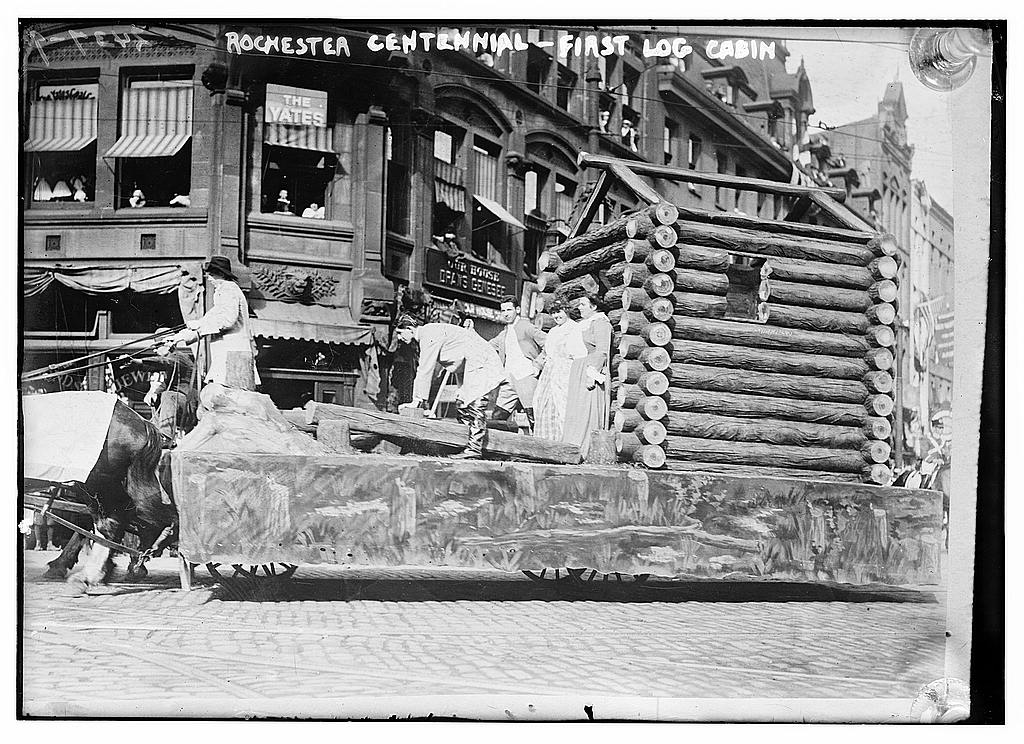 Rochester Centennial: first log cabin. taken between 1910 and 1915.